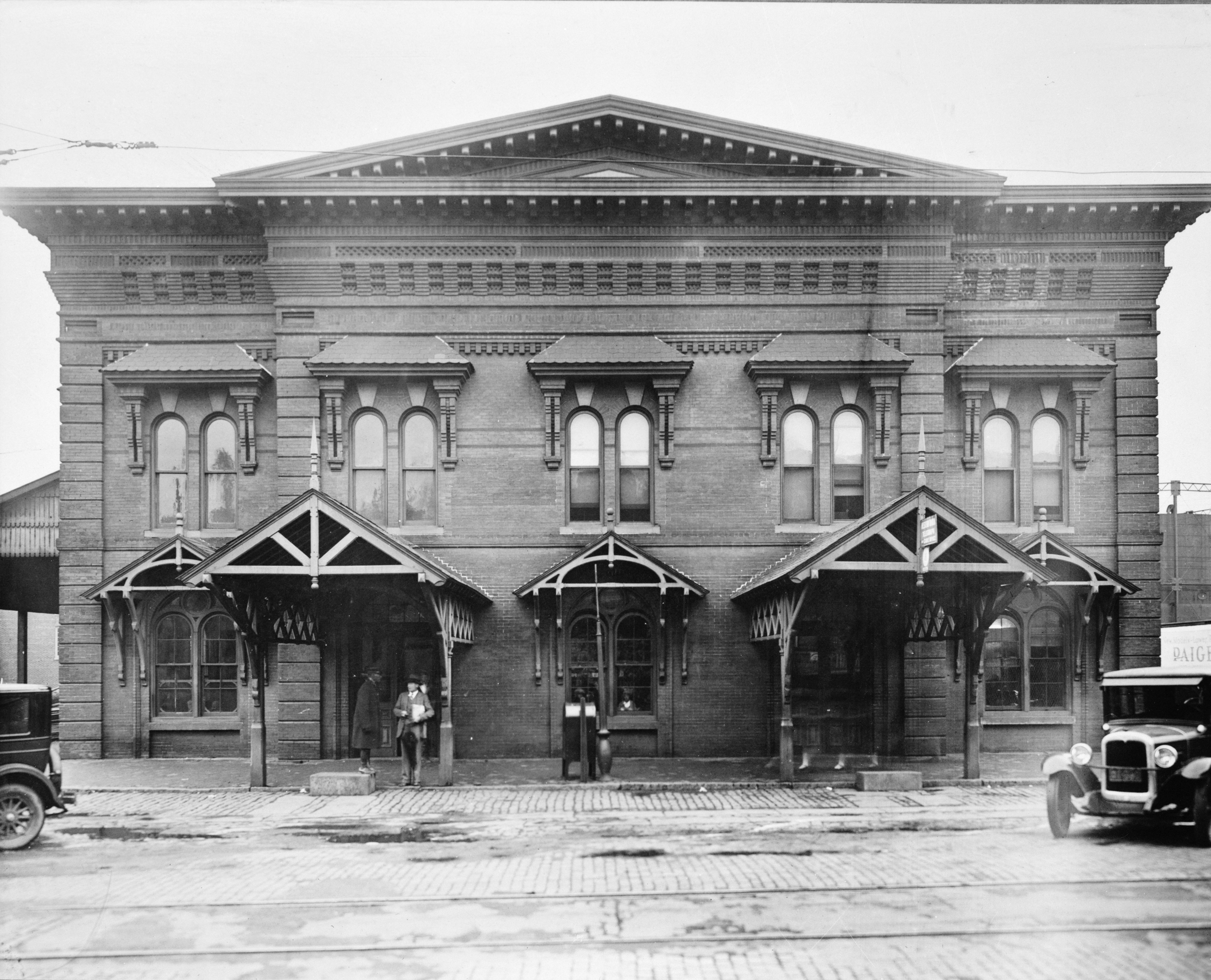 View of north front of Pennsylvania Railroad station, West Chester, Pennsylvania. Station was built 1875 by West Chester and Philadelphia Railroad and was located on the south side of E. Market Street between Matlack and Franklin Sts. Building demolished 1968. Cropped photo.